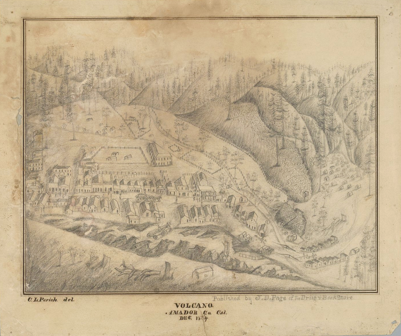 Volcano, California, drawing on paper: pencil and ink 26.6 x 31.3 cm. View from above of small town showing buildings and main street; tall rolling hills lined with trees surround town. This was the preliminary drawing for a lithograph by Britton & Rey.